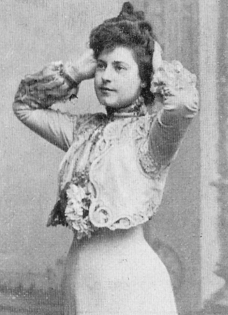 Rosa Albach-Retty (1874-1980)